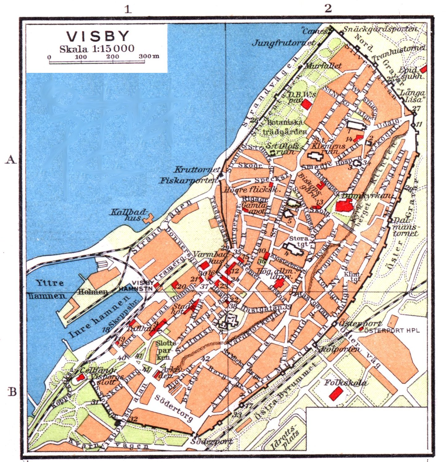 Map of Visby, Gotland, Sweden.